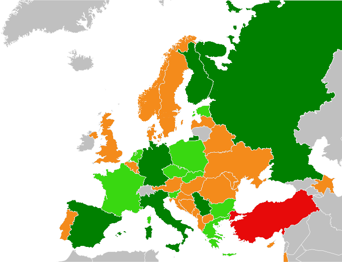 Elimination of the 2009 Men Volleyball European Championship